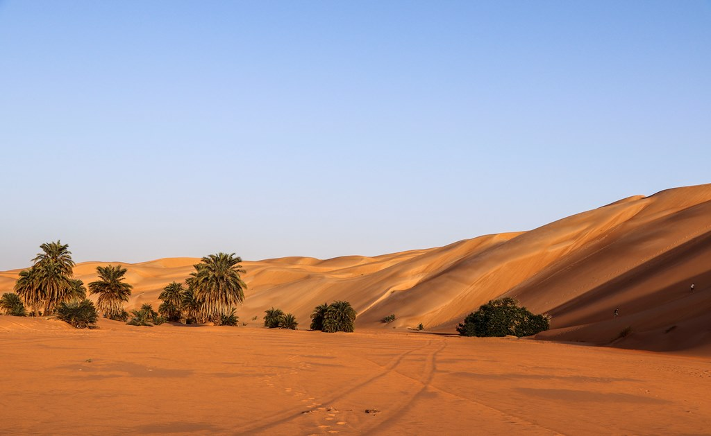 Erg Amadlich